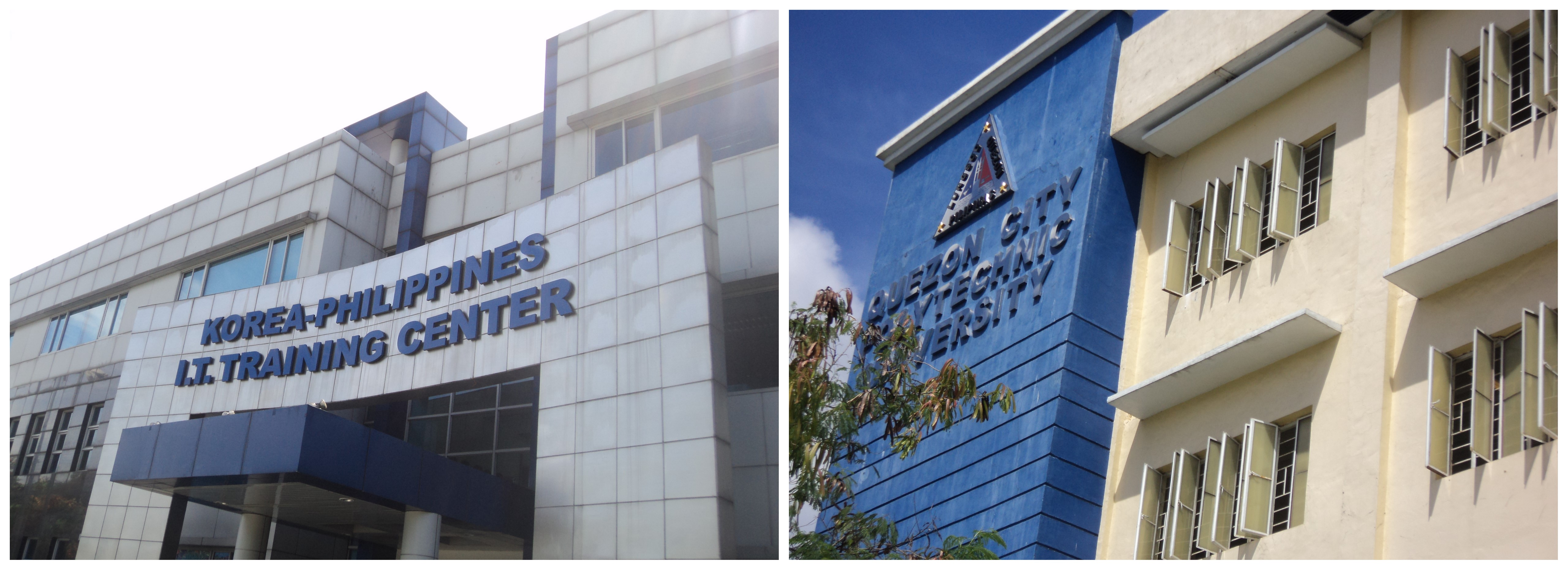 Korea-Philippines IT Training Center and Belmonte Hall in QCPU-SB